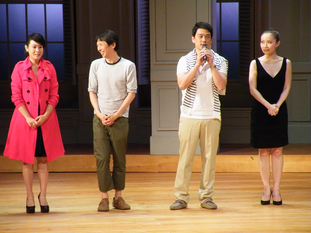 The director and main casts of The Doppelgänger 《紅娘的異想世界之在西廂》男女主角及導演林奕華，左起：劉若英、林奕華、王耀慶及周姮吟